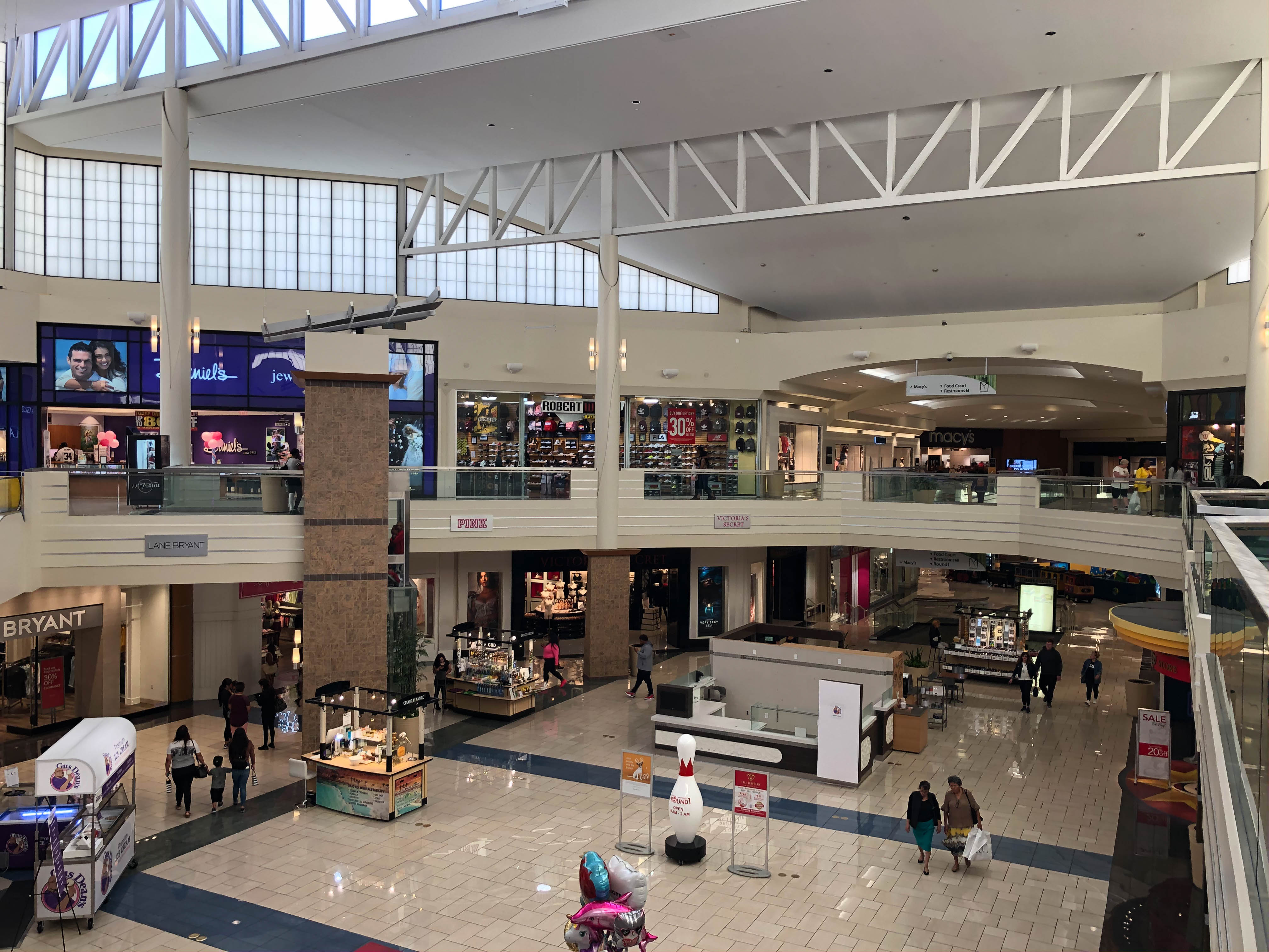 A section of the Meadows Mall in Las Vegas, viewed from the second floor.